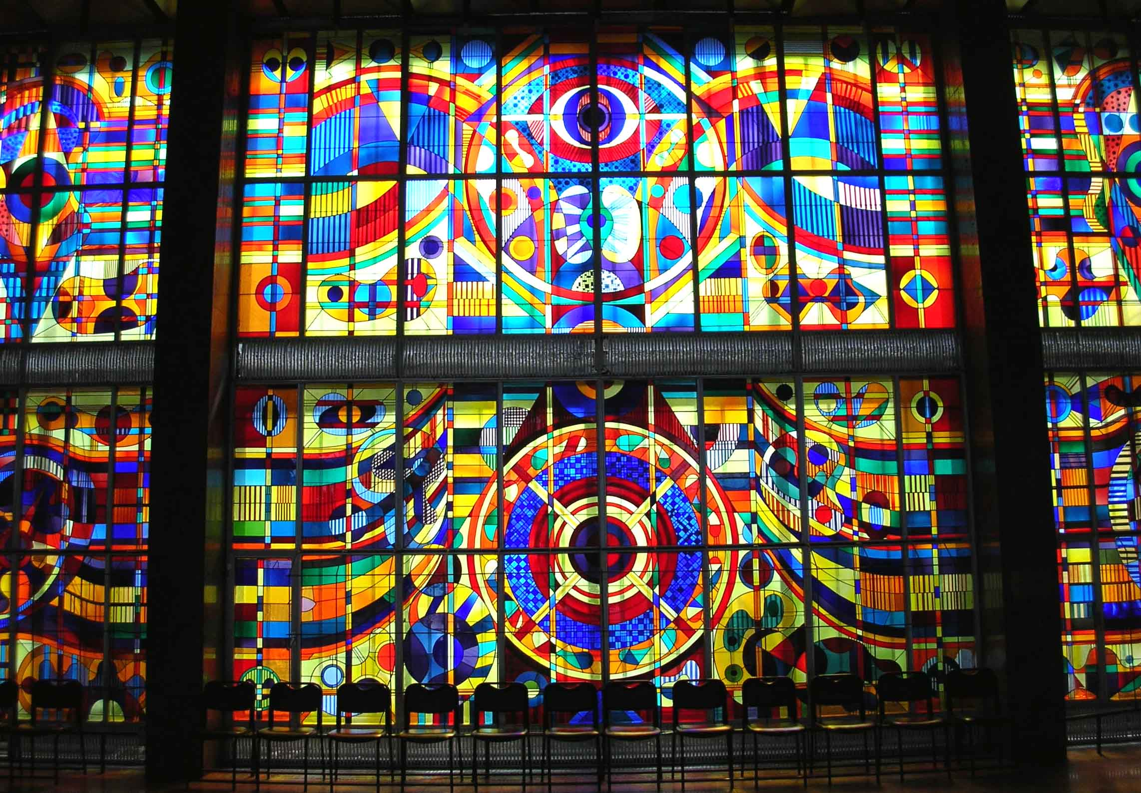 The largest modern stained glass window at the Nagyvárad tér Theaoretical Building